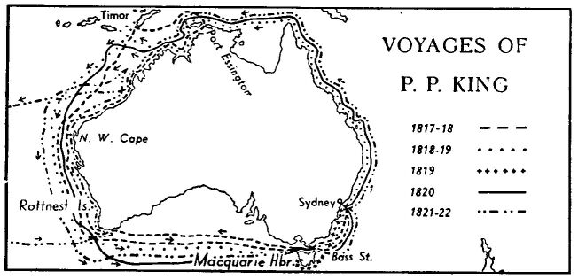 Map of the explorer's route in Australia.